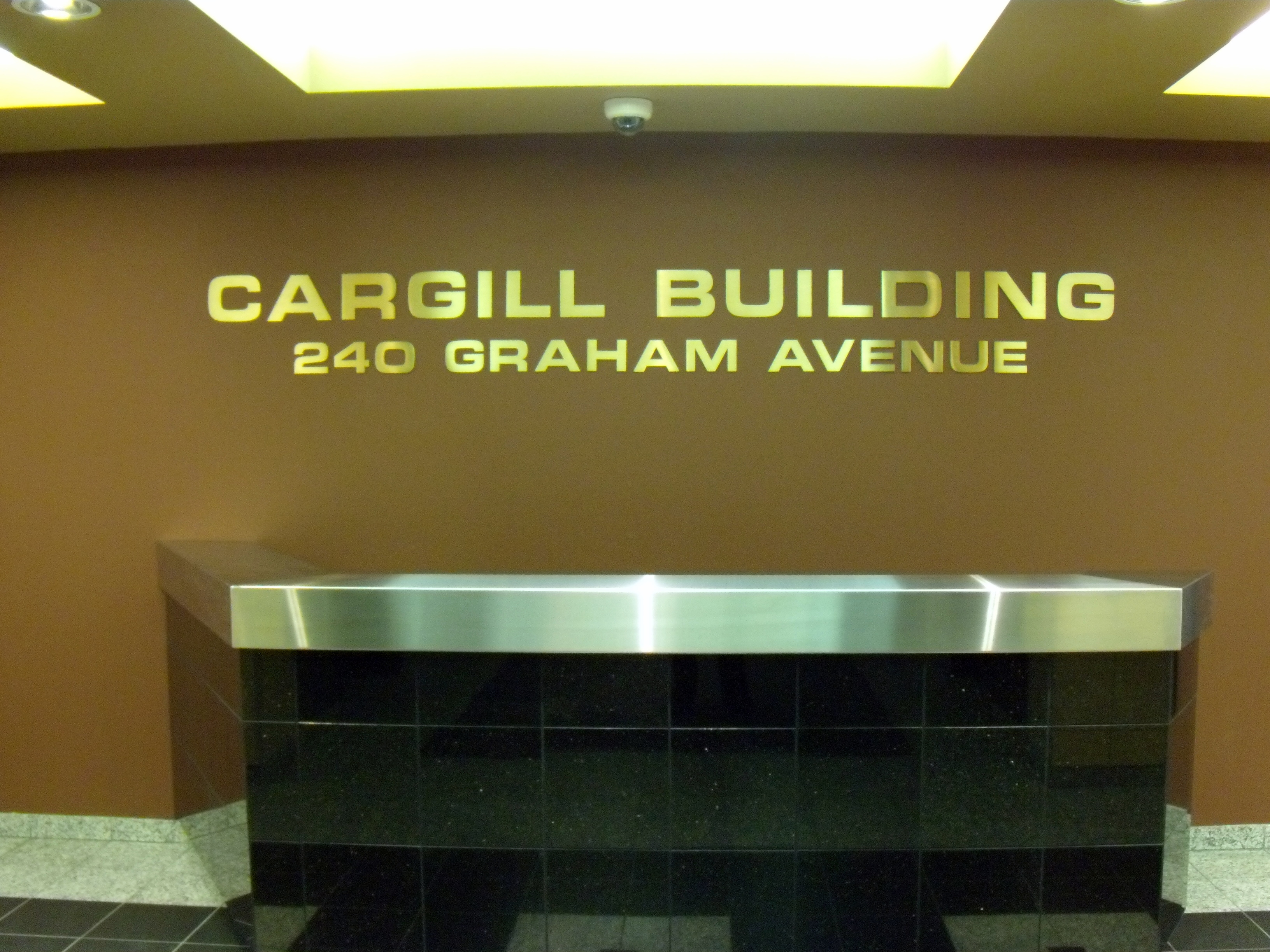 Cargill Building, 240 Graham Ave